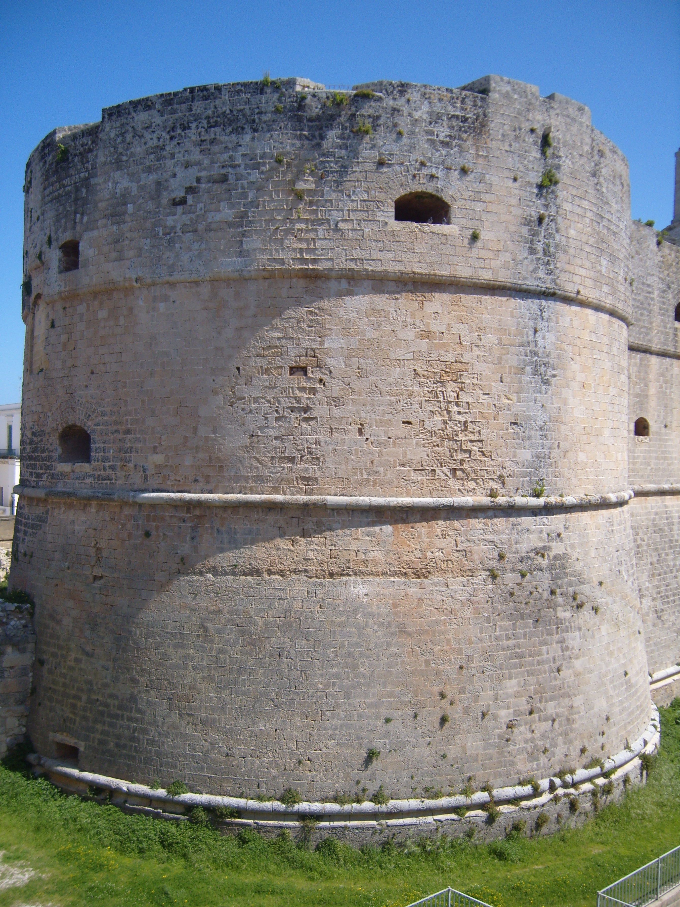 One of the towers of Otranto's castle